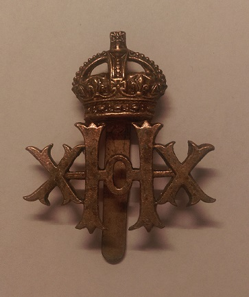 Photo of 20th Hussars Cap Badge from personal collection